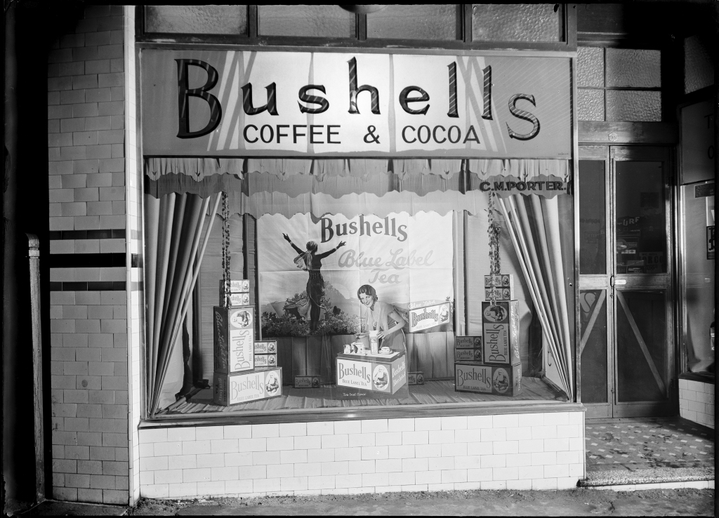 A photo from the Tom Lennon Photographic Collection from the Powerhouse Museum.